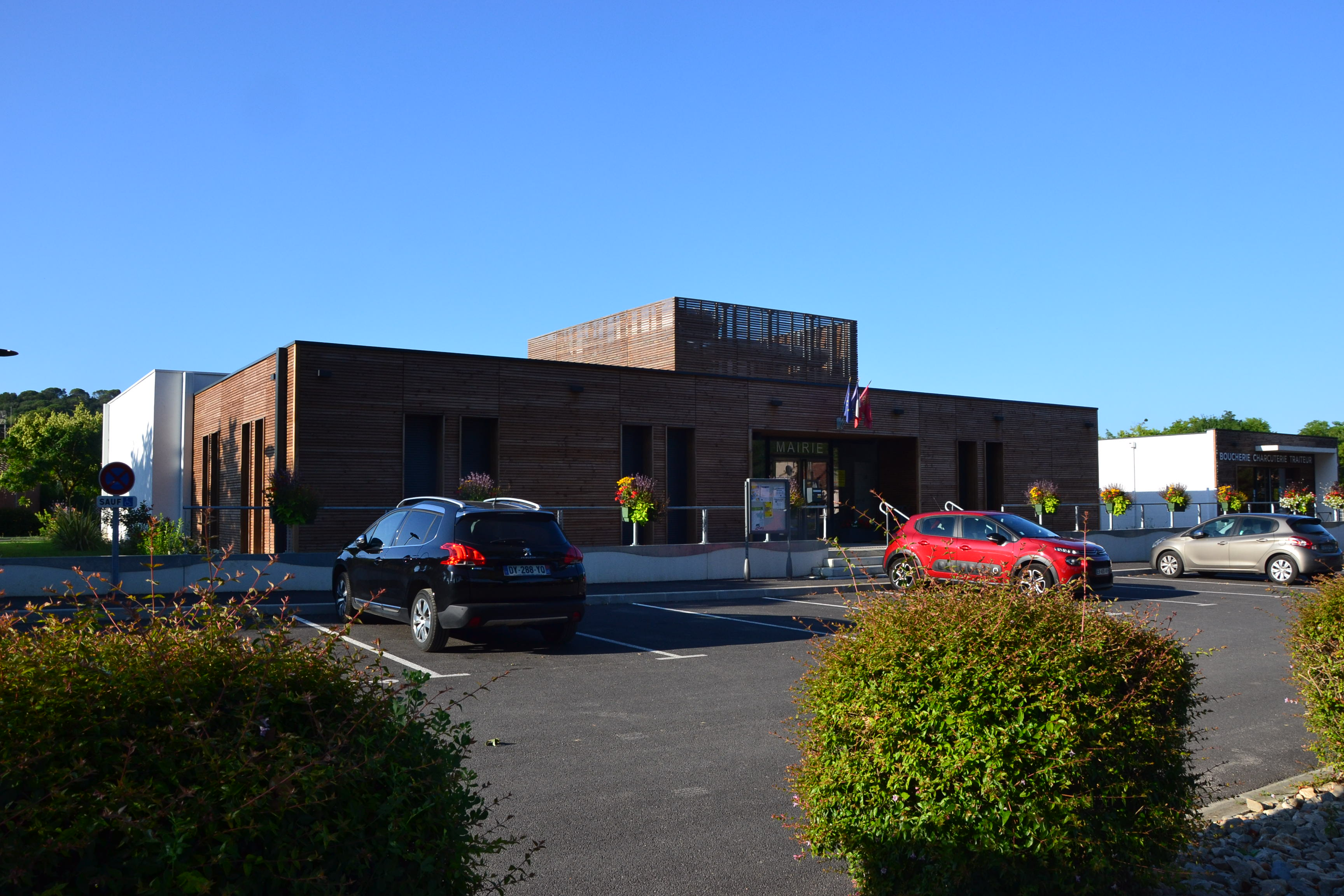 Town hall of Verzeille, dept. Aude, France